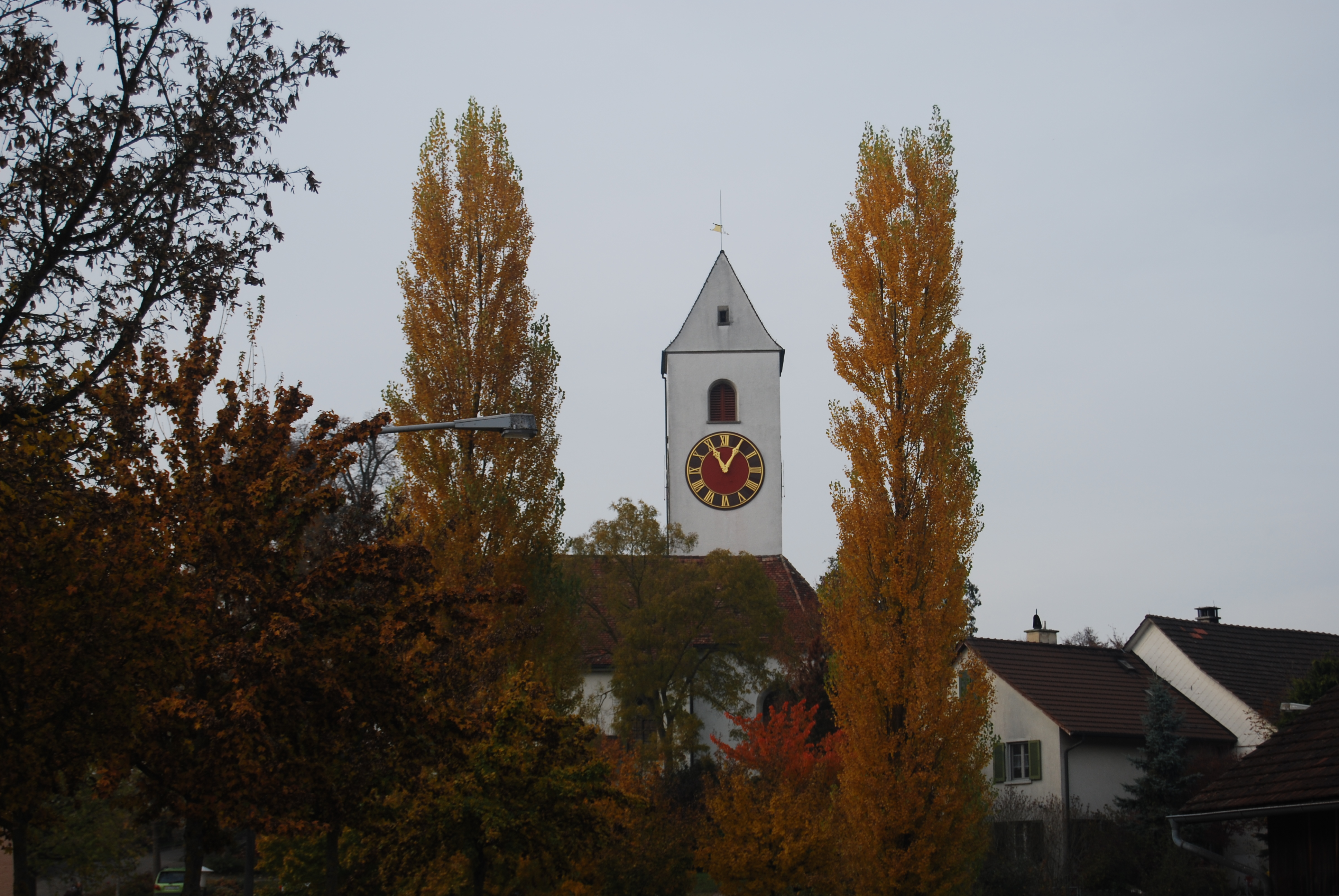 Church of Hettlingen, canton of Zürich, SwitzerlandEsperanto: Preĝejo de Hettlingen, Kantono Zuriko, Svislando